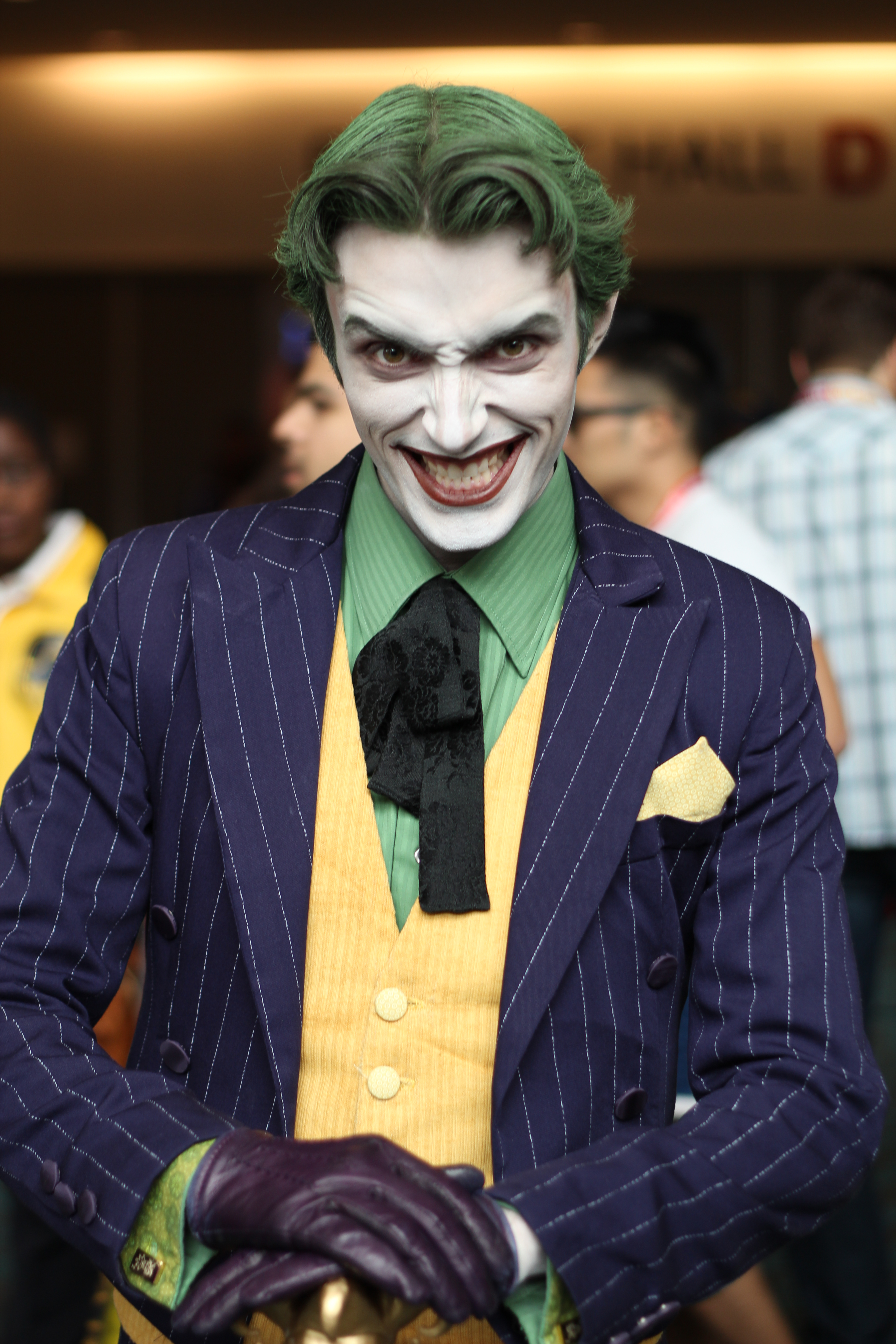 Cosplay at San Diego Comic-Con (SDCC 2012).